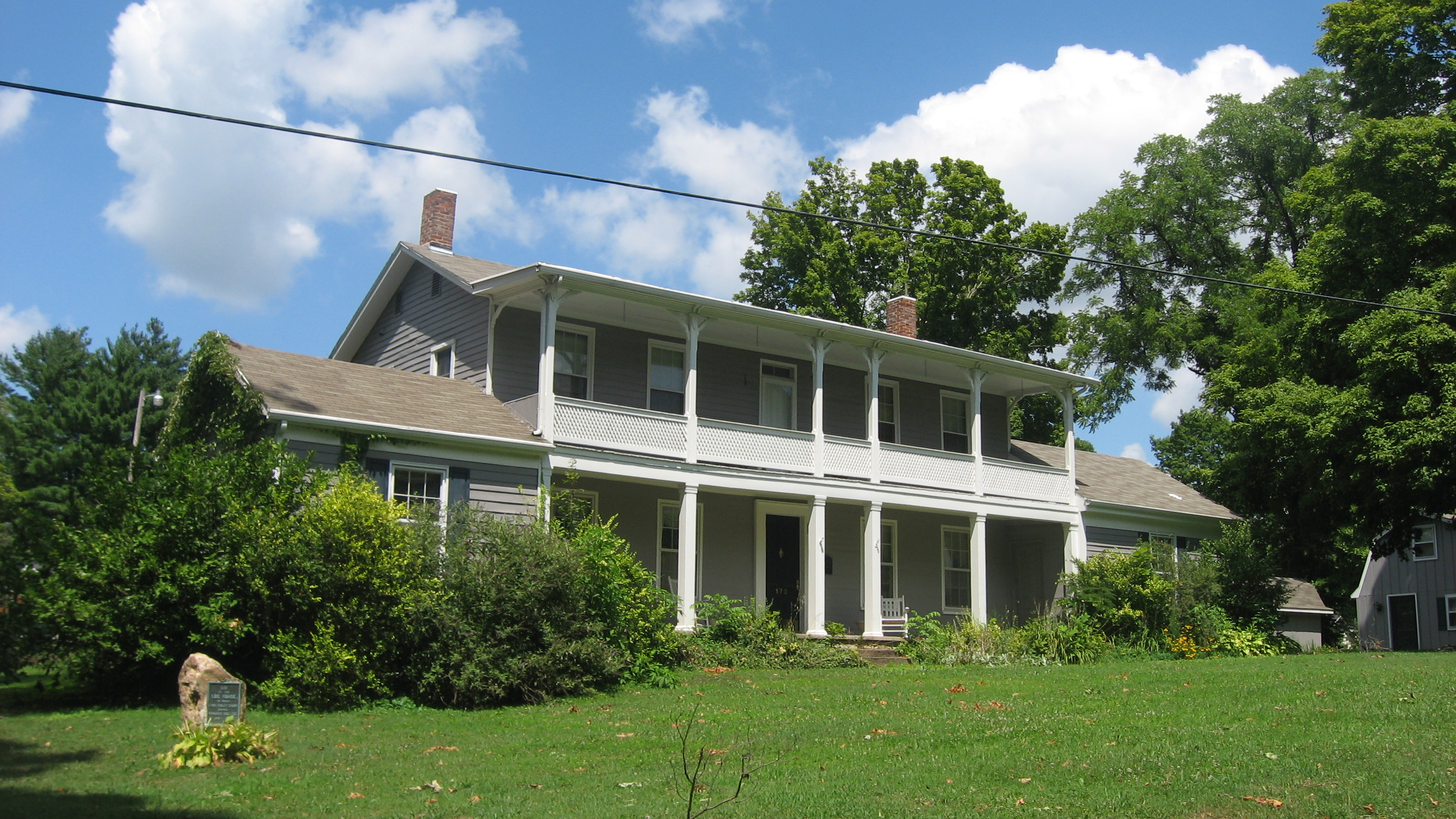 Front of the Crowe-Garritt House, located at 172 Crowe Street in Hanover, Indiana, United States. Built in 1824, it is listed on the National Register of Historic Places.